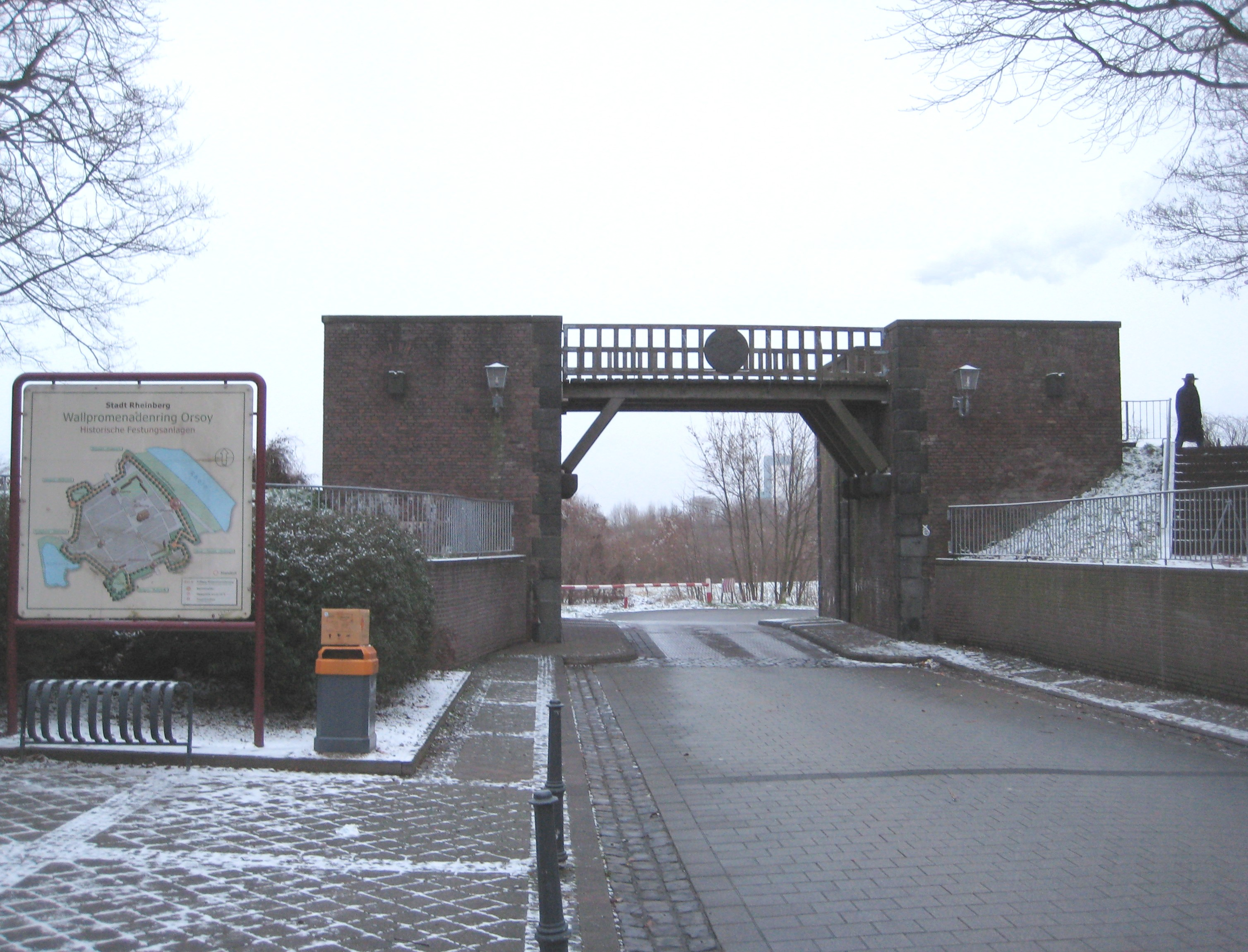 Rheintor Orsoy